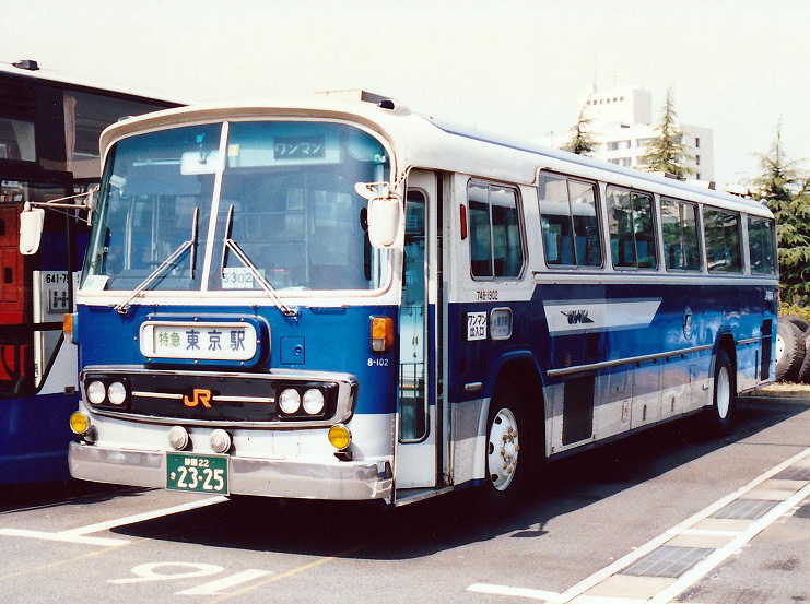 JR Central Nissan Diesel K-RA60S for JNR Highway bus